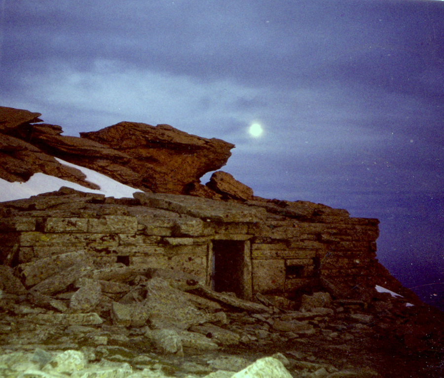 Dragon house in Oche mountain, Euboea, Greece